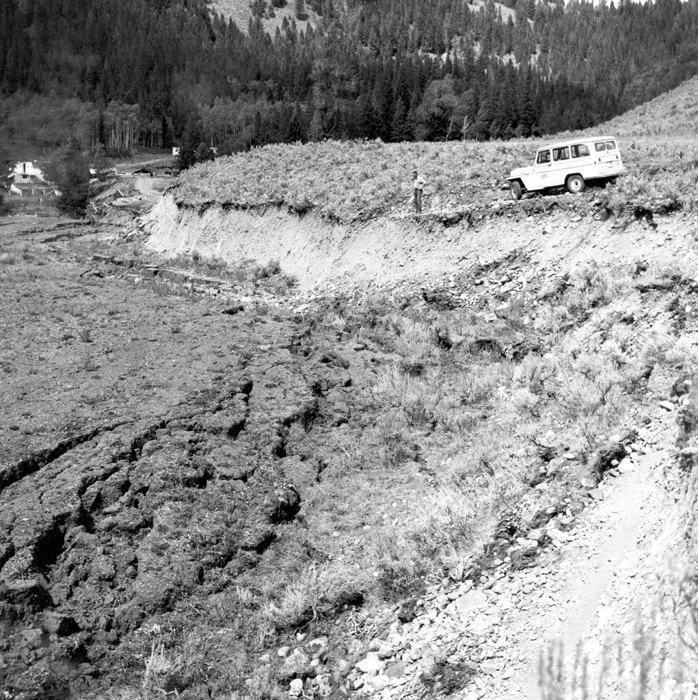 Hebgen Lake, Earthquake August 1959. Red Canyon fault scarp east of Blarneystone Ranch. Jeep stands on the road which is on the footwall. August 19 Digital File:sjr00100 ID. Stacy, J.R. 100 Original found at [1] using keywords "Hebgen" and "Lake."